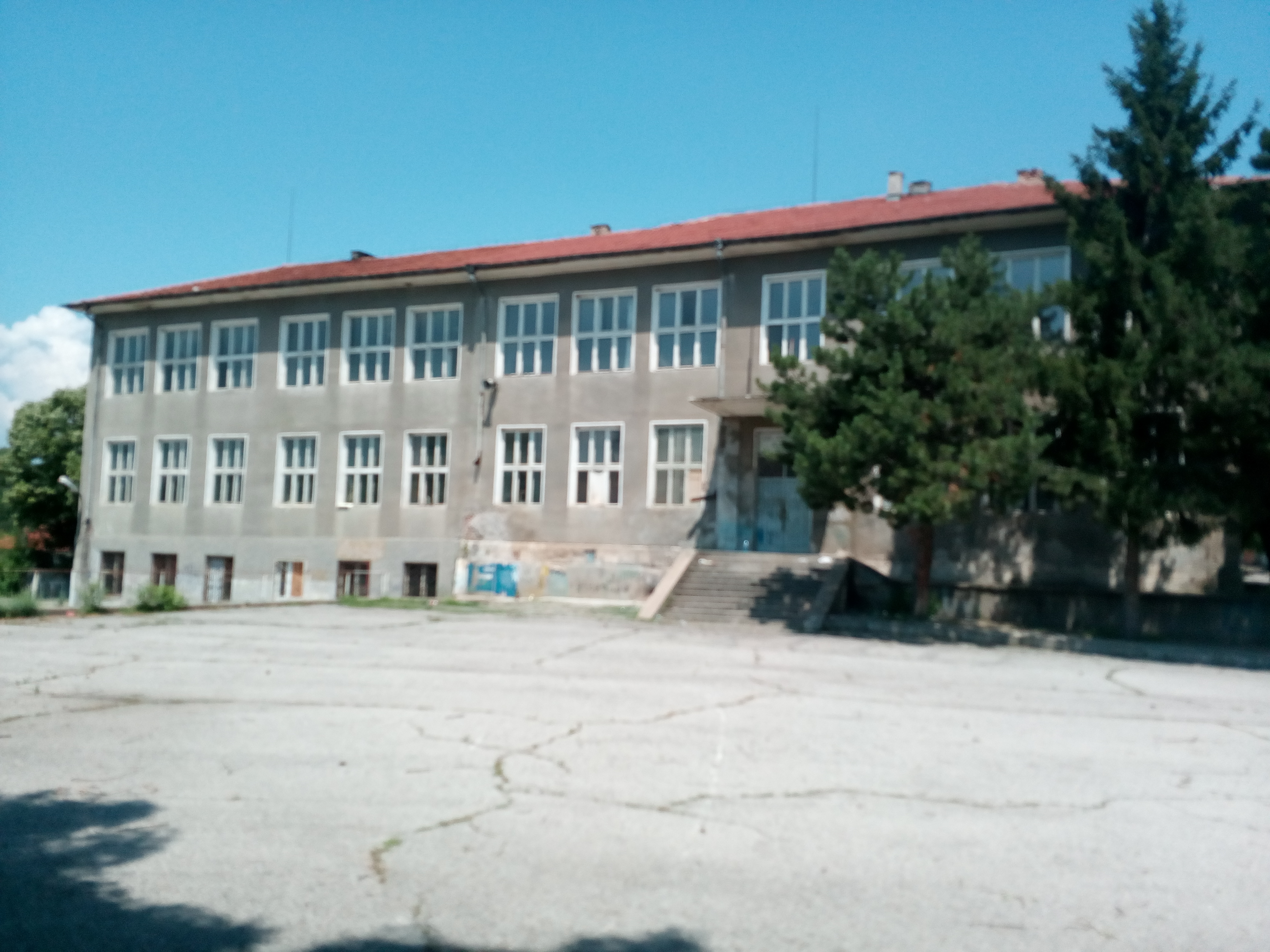 Училище Иван Вазов